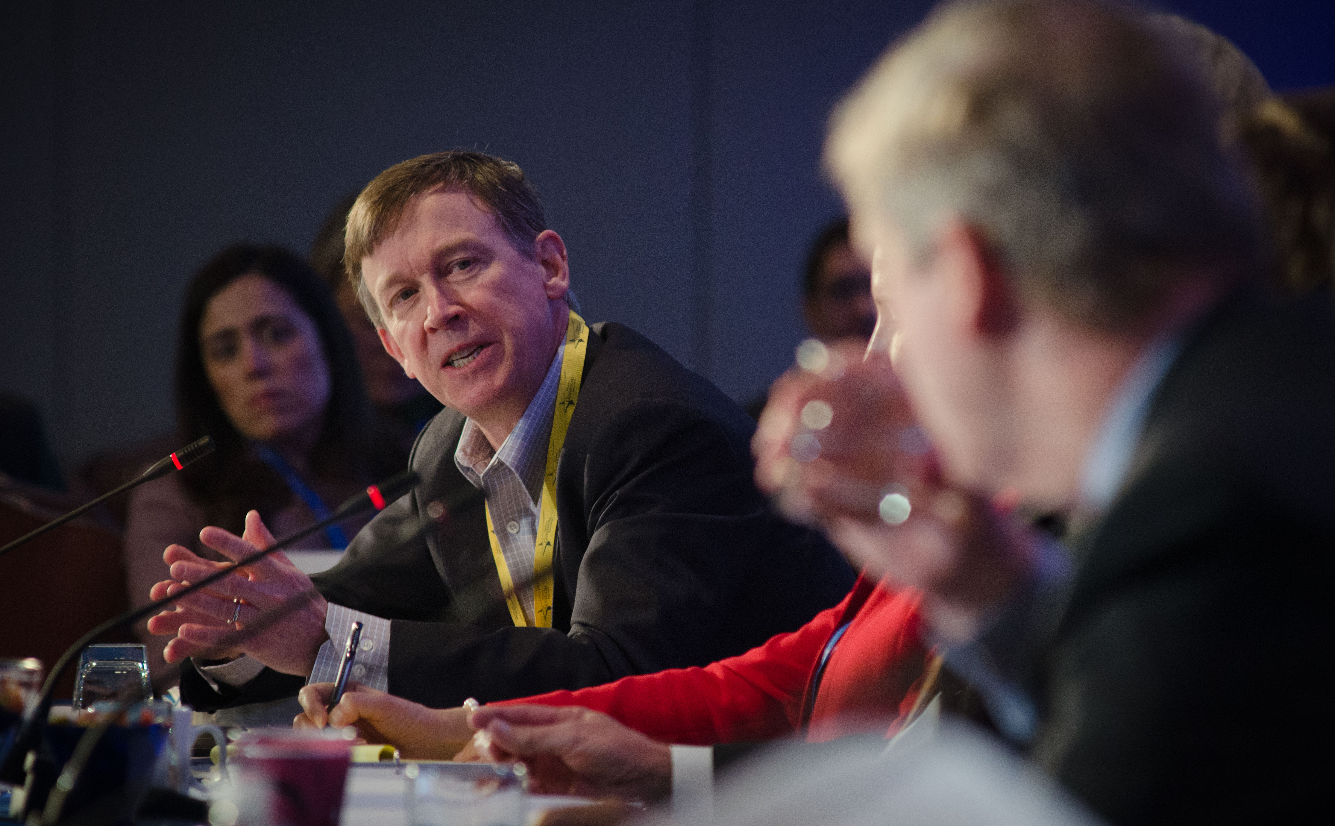 Colorado- Governor John Hickenlooper (center) talks with Agriculture Secretary Tom Vilsack (right) about how most Colorado schools have produce gardens to educate and supplement the schools nutrition program, during the National Governors Association Education, Early Childhood and Workforce Committee meeting in Washington, D.C., on Sunday, February 26, 2012. USDA Photo by Lance.Cheung.